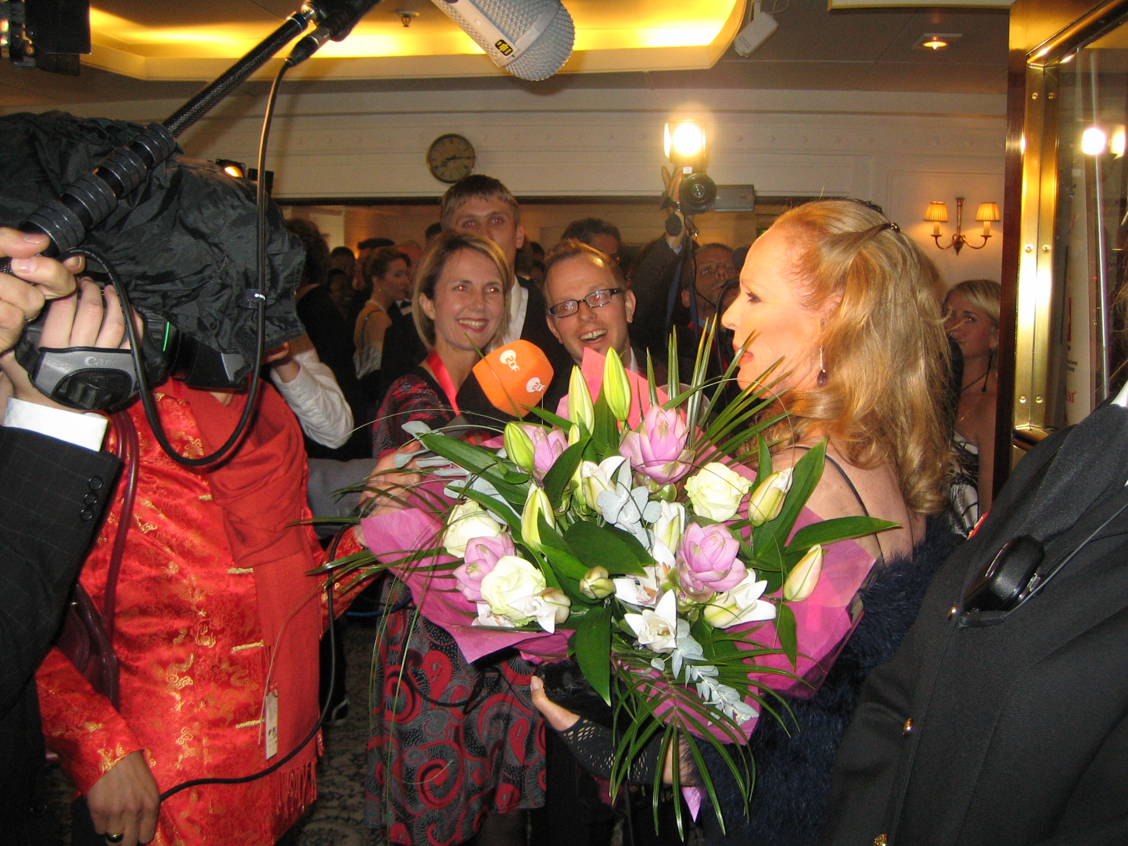 Ursula Andress on board the Royal Yacht Britannia in Edinburgh celebrating her 70th birthday